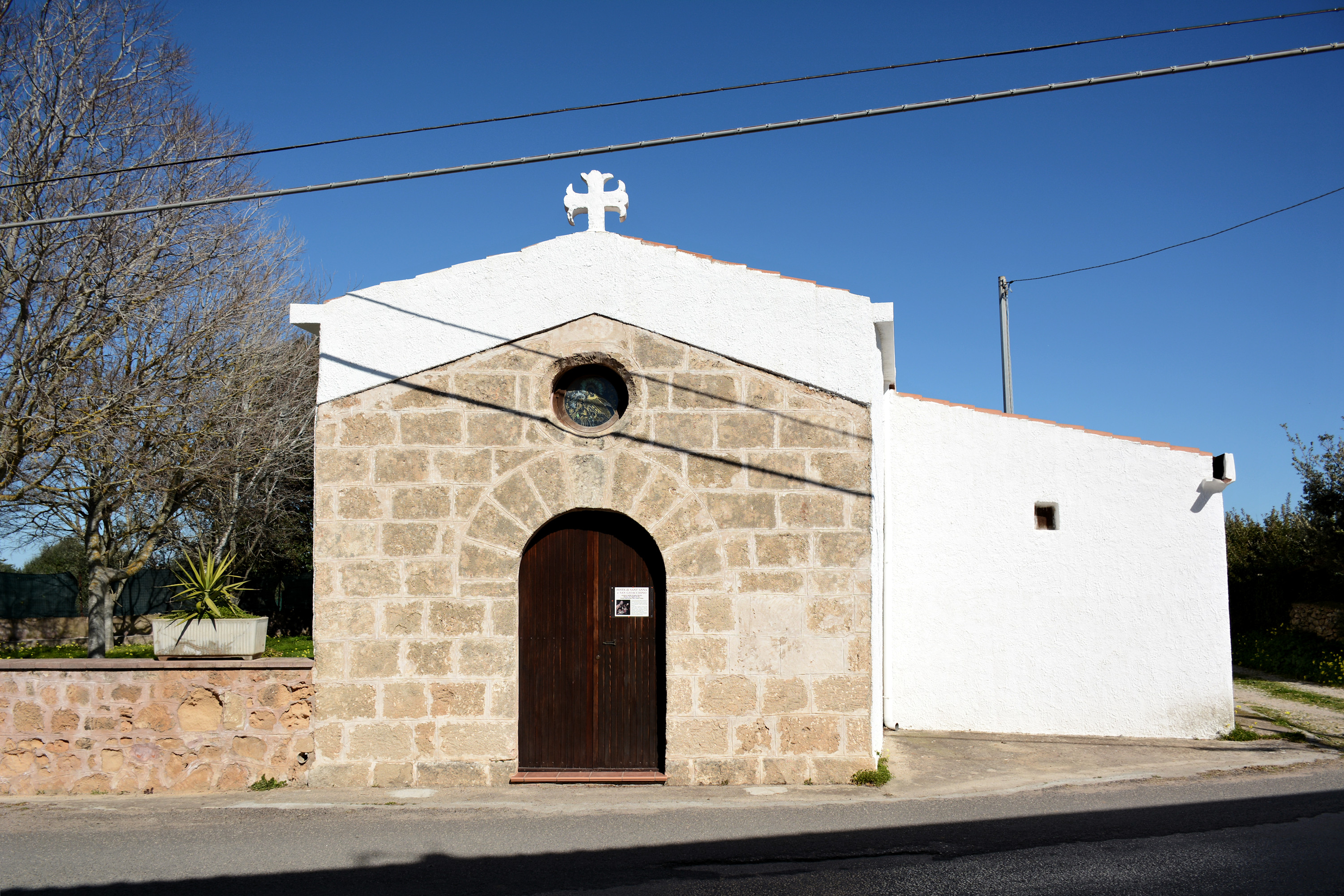 Facade of the rural Church of Sant'Anna